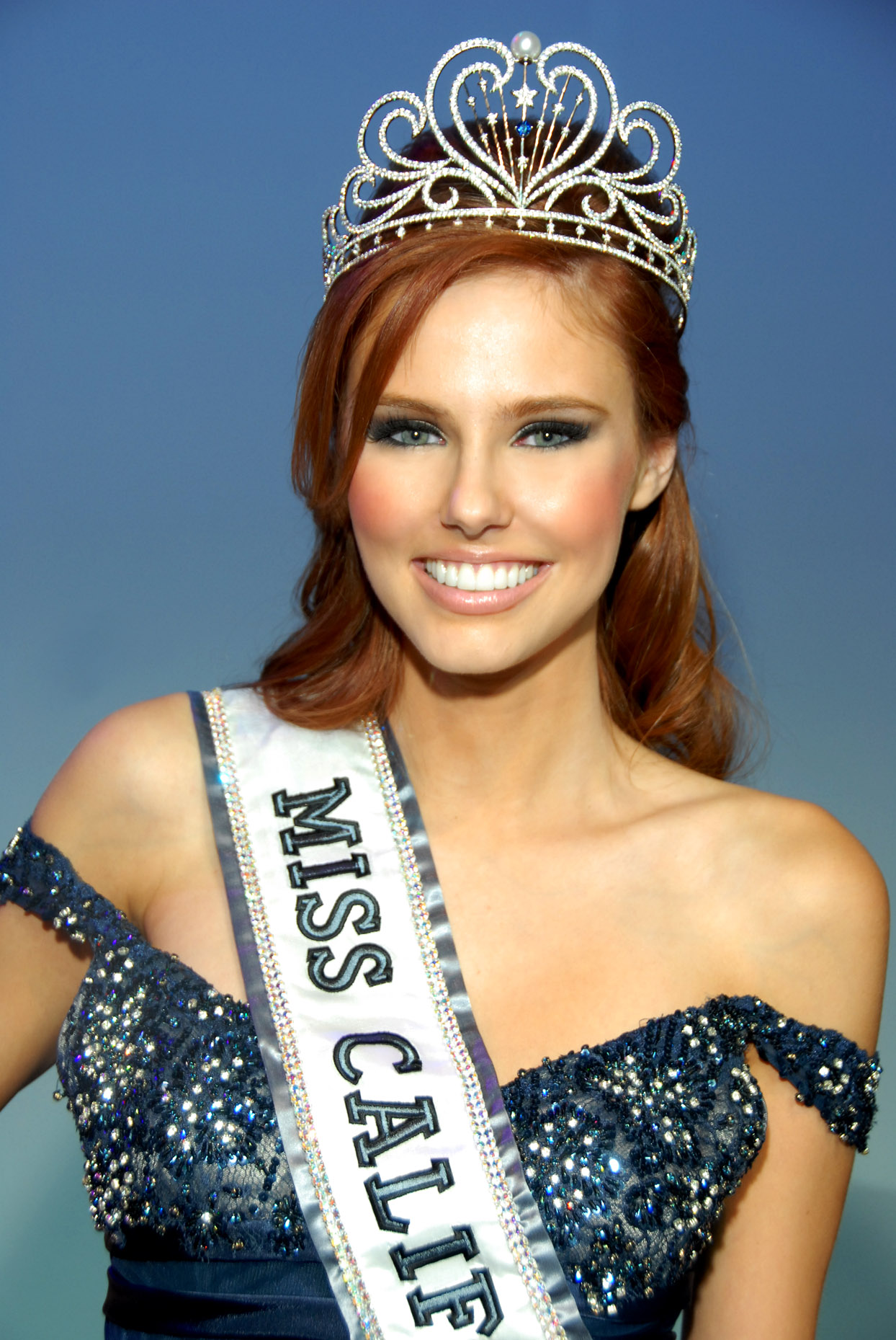 Alyssa Campanella after winning the Miss California USA 2011 title, Rancho Mirage, CA on November 21, 2010 - Photo by Glenn Francis of